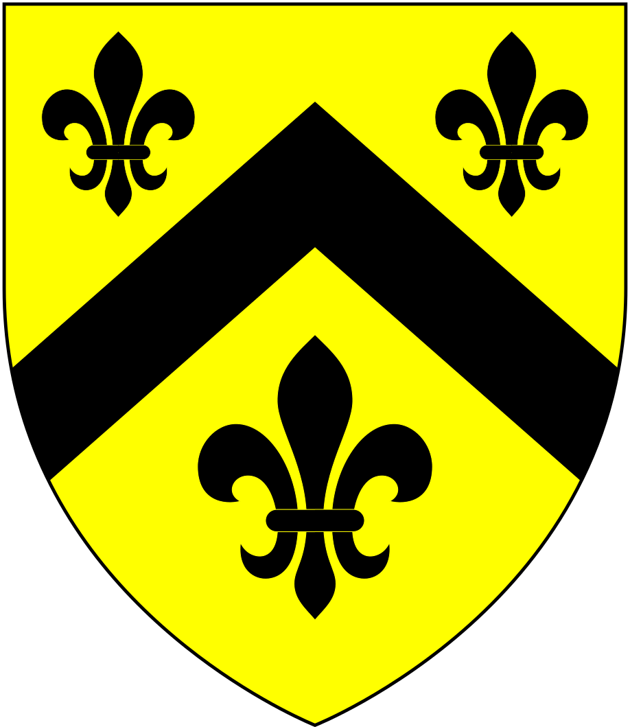 Arms of Fanshawe of Fanshawe Gate, Derbyshire, granted to John Fanshawe in 1490: Or, a chevron between three fleurs-de-lys sable ( Burke's Genealogical and Heraldic History of the Landed Gentry, 15th Edition, ed. Pirie-Gordon, H., London, 1937, pp.745-7, pedigree of "Fanshawe of Fanshaws gate and Bratton Fleming")